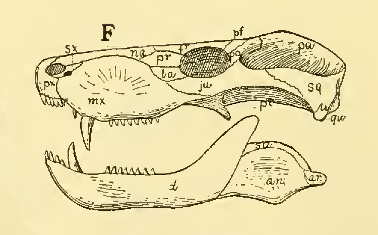 An illustration from The Osteology of the Reptiles